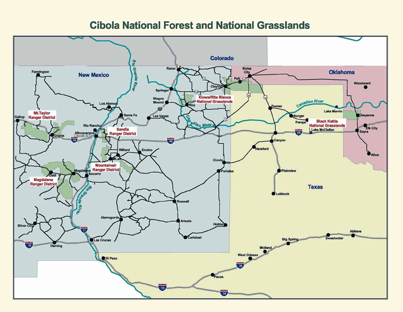 Map of the Cibola National Forest districts — a U.S. National Forest in New Mexico. It also administers the Kiowa National Grassland (New Mexico) and adjacent Rita Blanca National Grassland (Oklahoma), and Black Kettle National Grassland (Oklahoma & Texas)